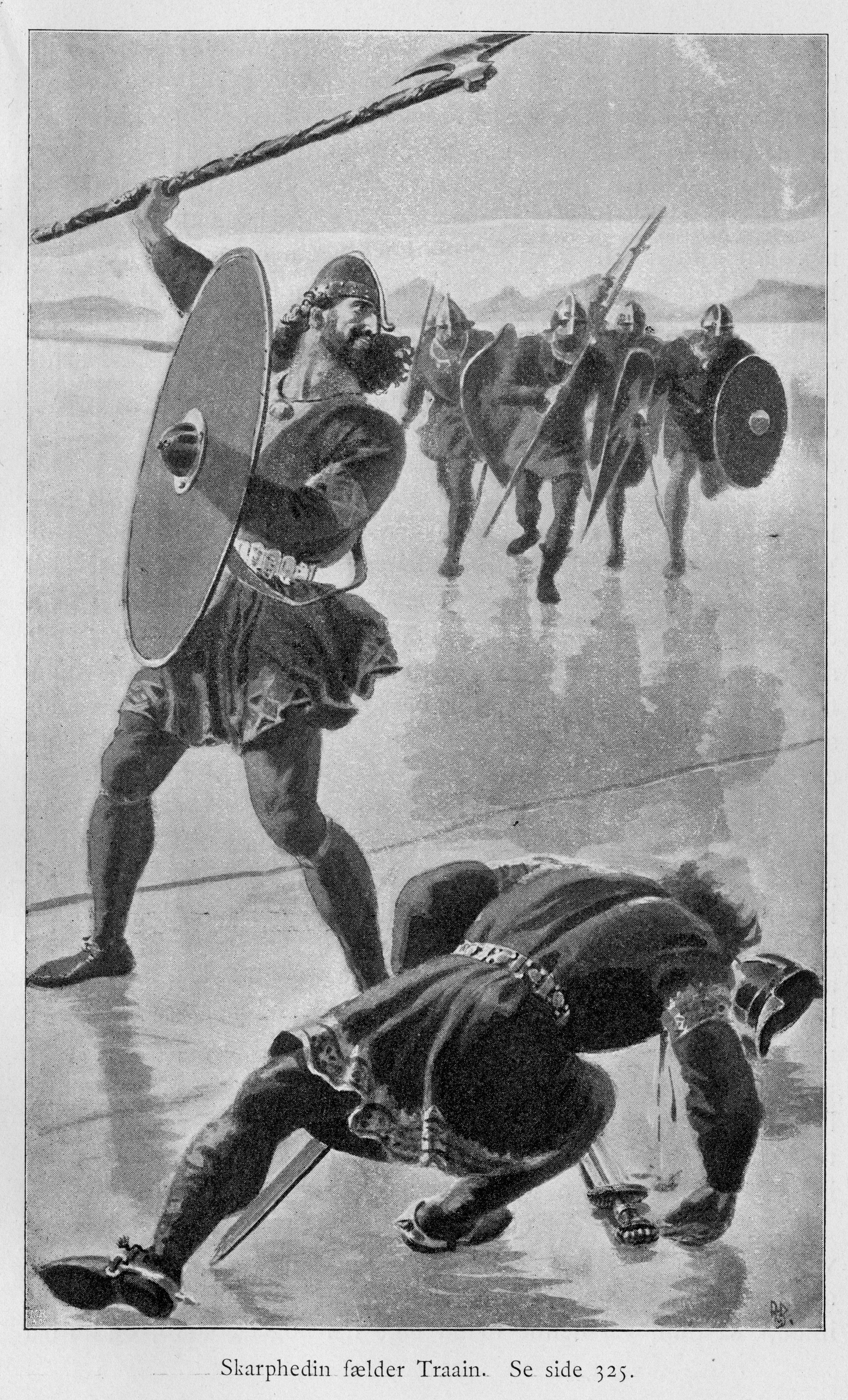 From Njáls saga: Skarp'héðinn kills Thrain Sigfusson. Illustration from "Vore fædres liv" : karakterer og skildringer fra sagatiden / samlet og udggivet af Nordahl Rolfsen ; oversættelsen ved Gerhard Gran., Kristiania: Stenersen, 1898.